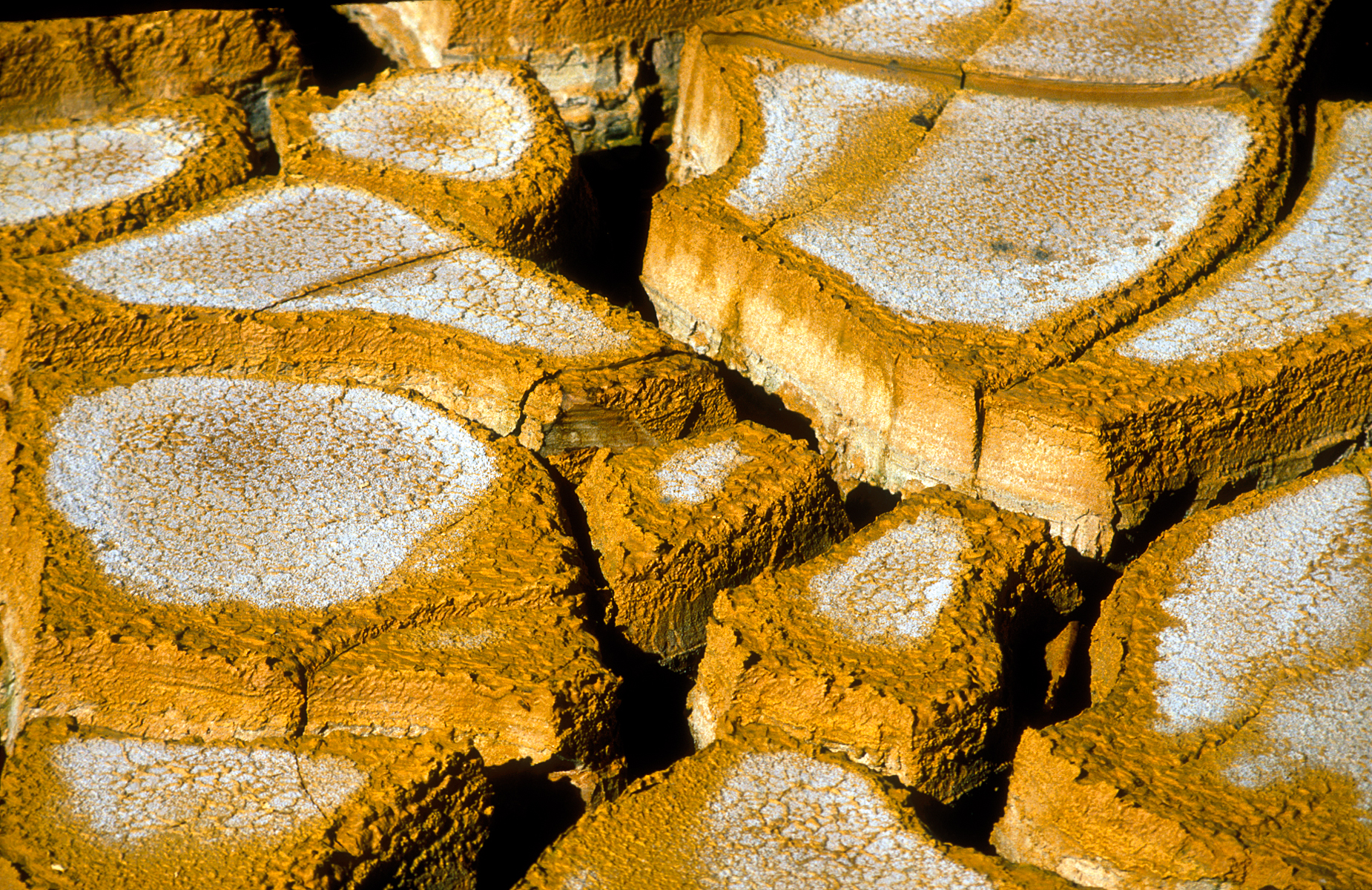 Saline build-up on the dry bed of the Brukunga Pyrites Mine tailings dam, east of Adelaide in the Mount Lofty Ranges, South Australia. 1992.